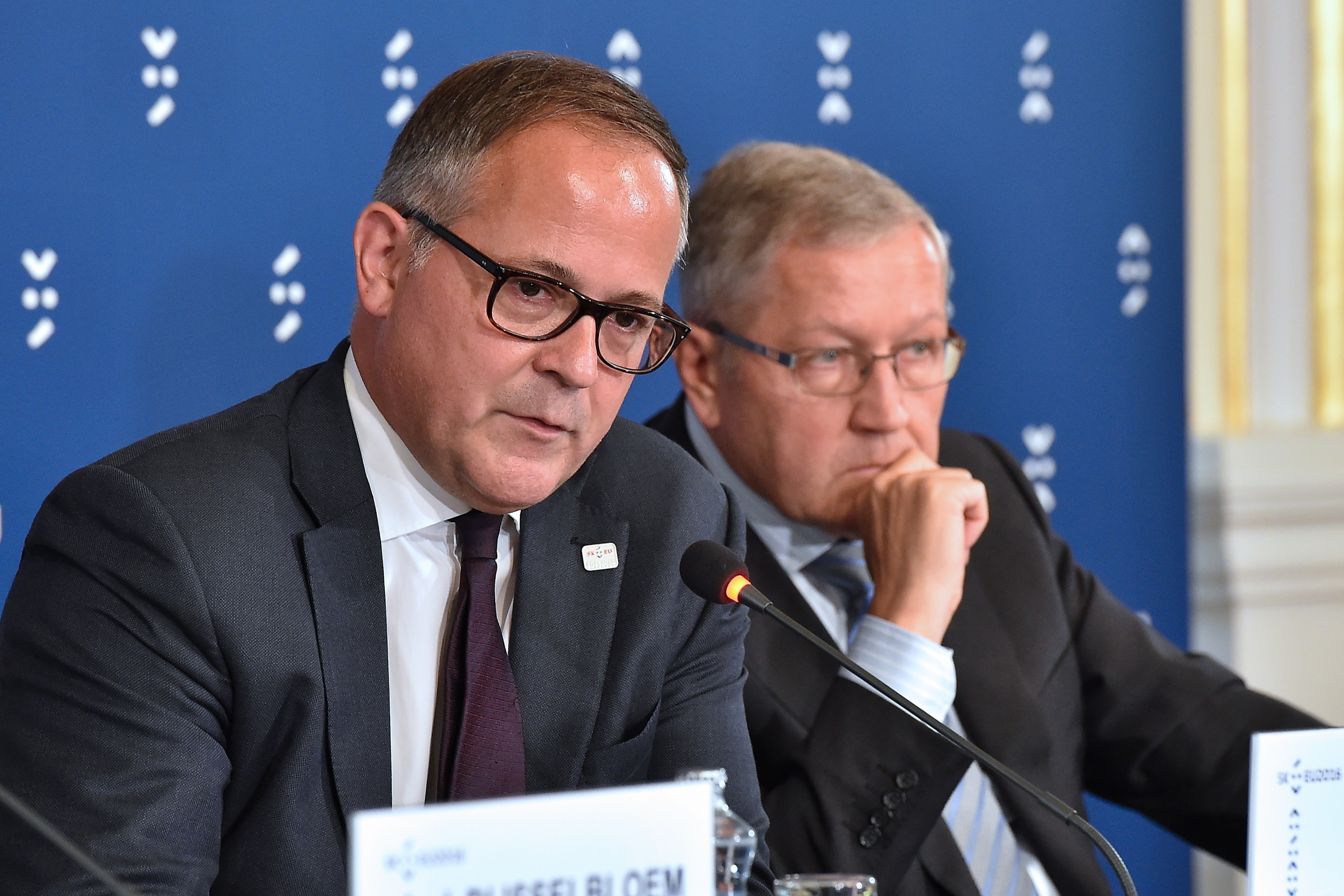 PRESS CONFERENCE - (Informal ECOFIN) 2016-09-09_P.Moscovici-Commission, J.Dijsselbloem-President Eurogroup, B.Coeuré-ECB, K. Regling-ESM. Photo Rastislav Polak